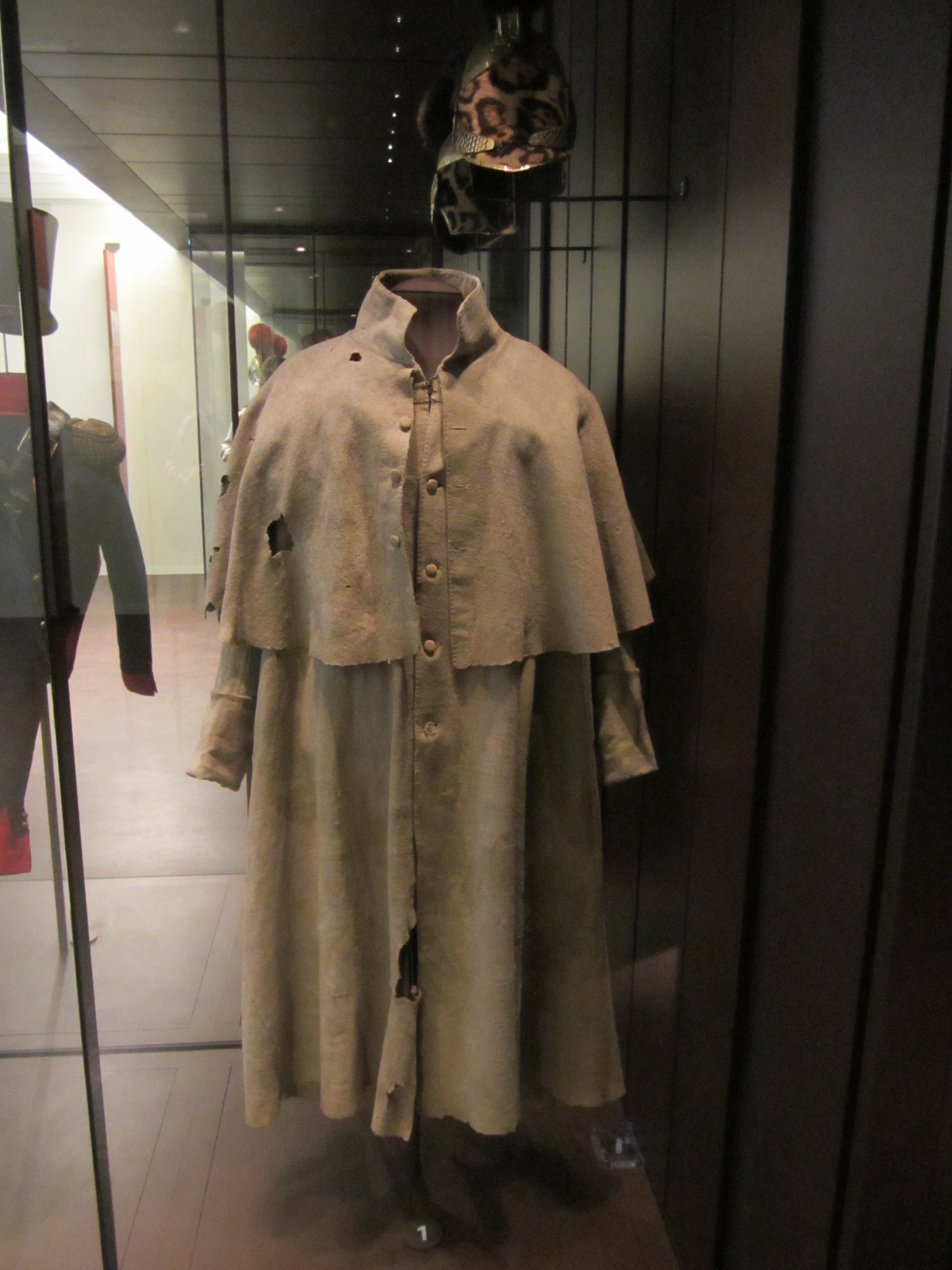 The cloak used by a French cavalryman in 1812